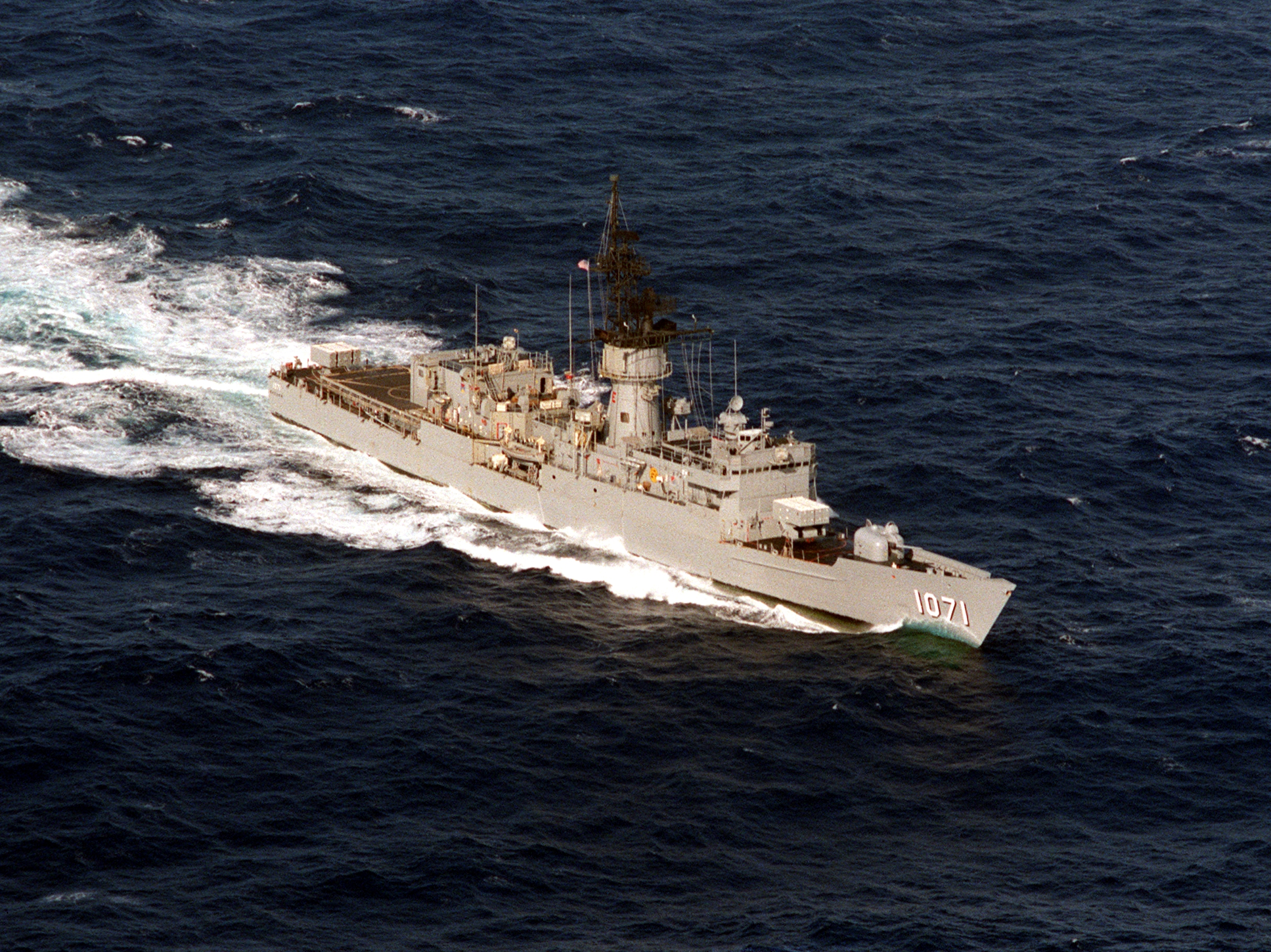 The U.S. Navy frigate USS Badger (FF-1071) underway in the Pacific Ocean on 1 December 1985.